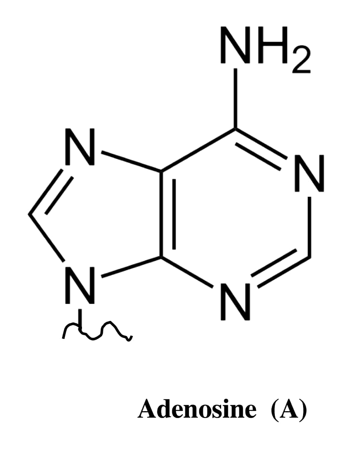 Adenosine chemical structure